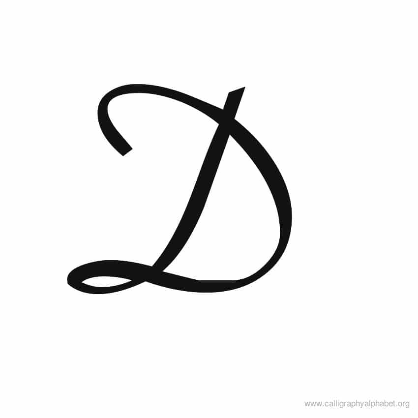 I CREATED THIS LOGO WHEN I TOOK THE TEAM